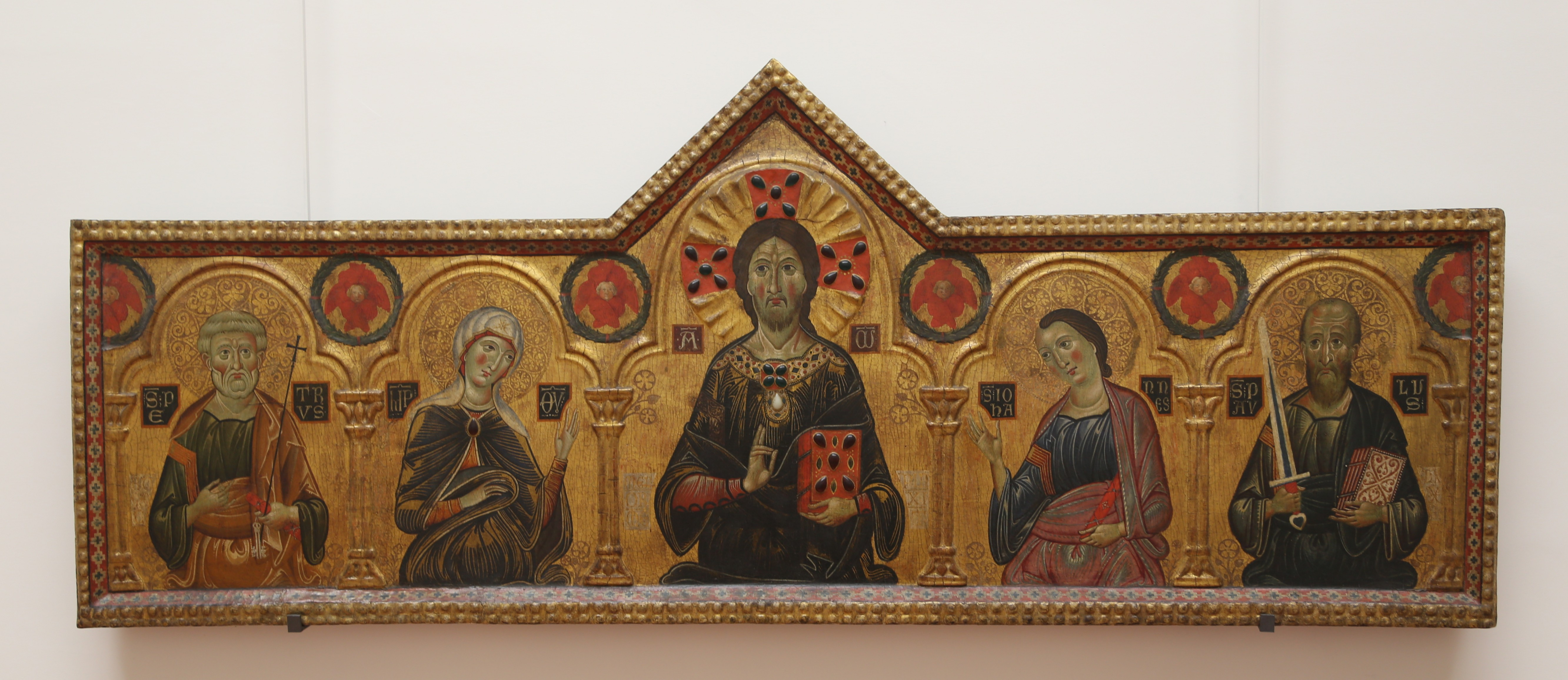 original frame, cherubs were added later attributed to Cosimo Rosselli